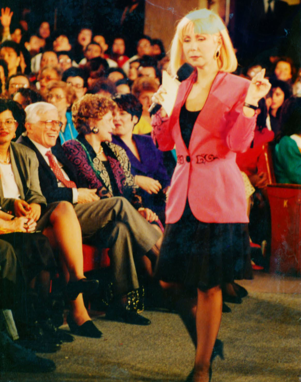 Cuban-American talk show host Cristina Saralegui during her show at the Beacon Theatre, New York City, March 31, 1992